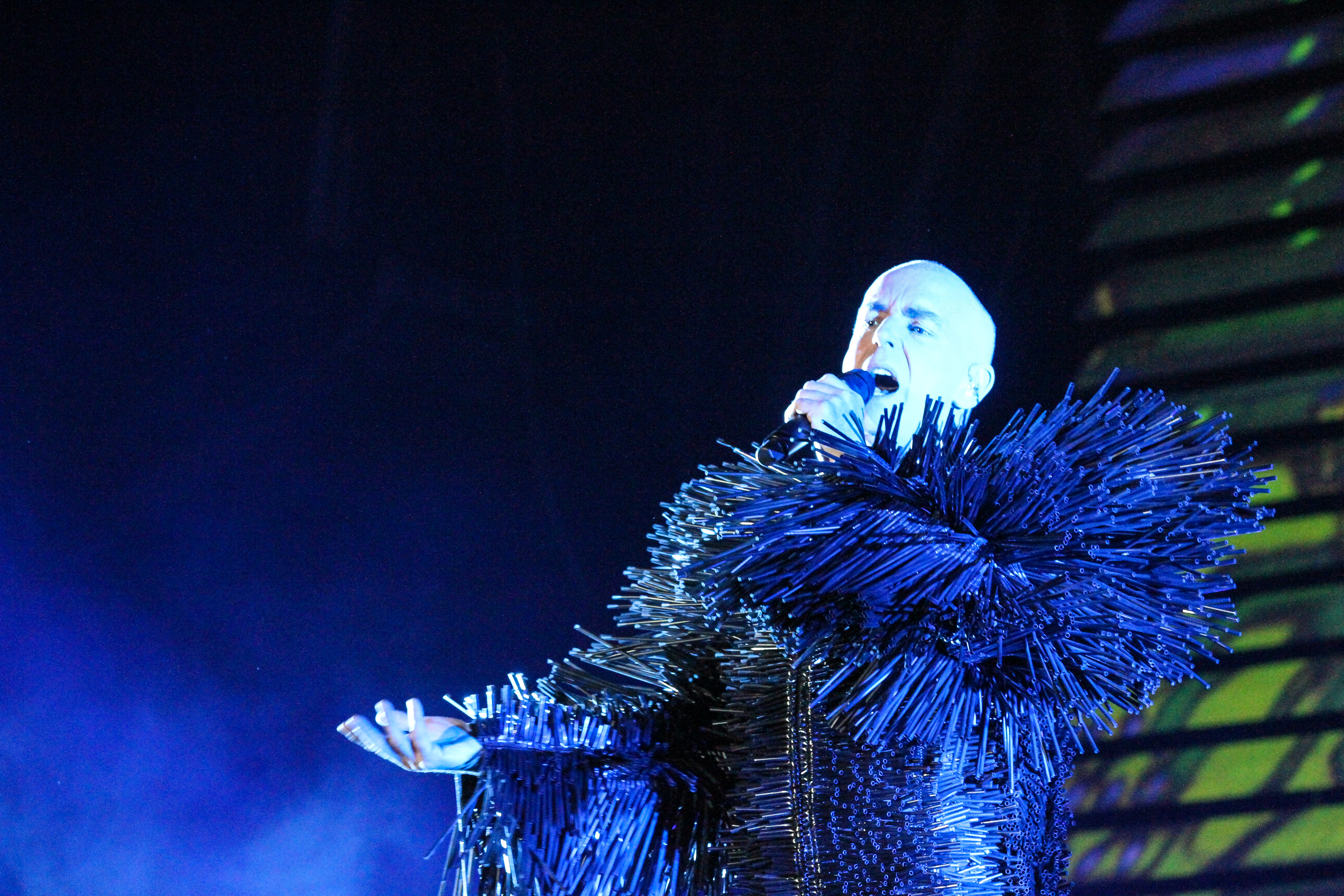 Pet Shop Boys performing at Melt! Festival 2013